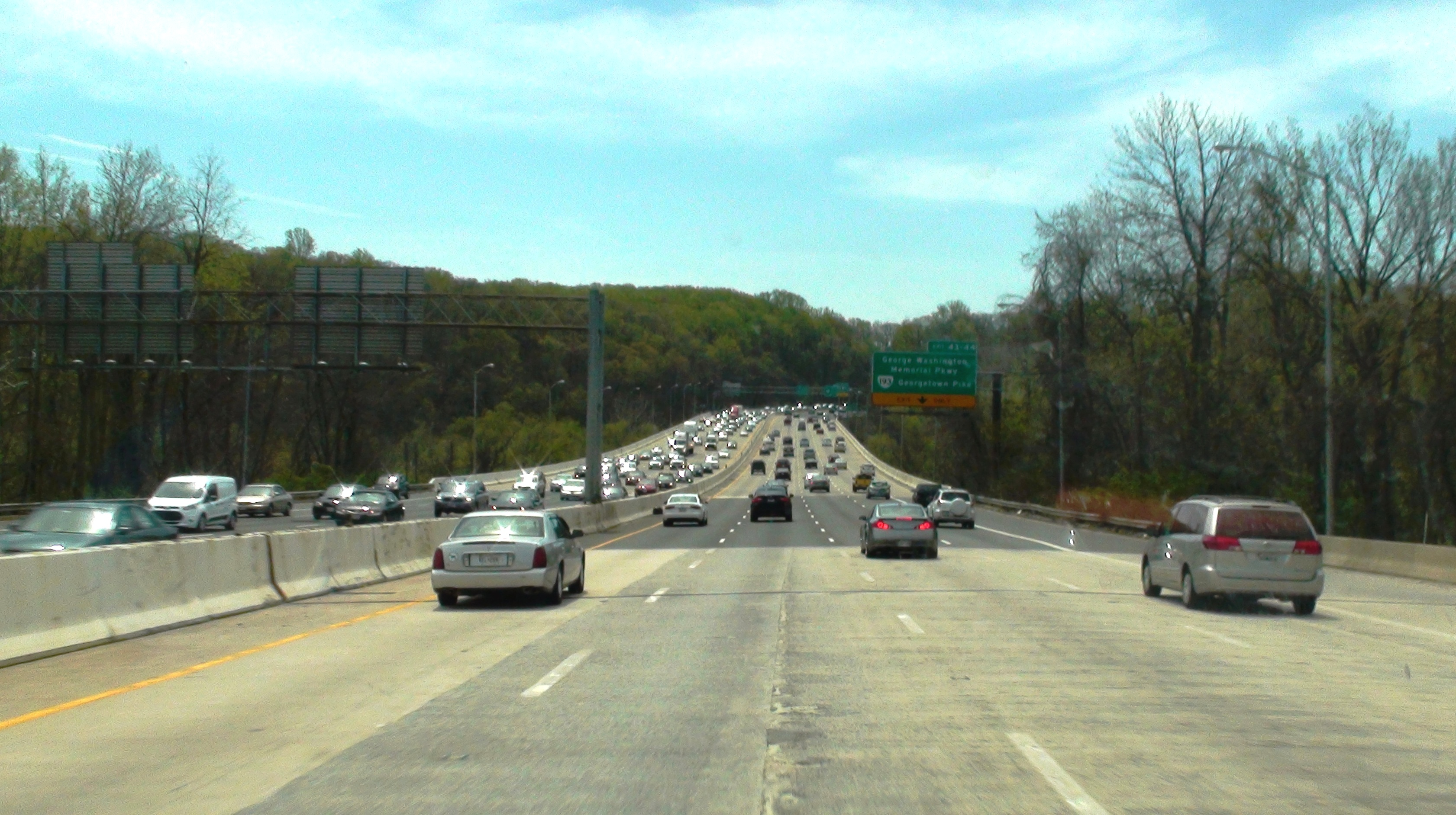 The American Legion Memorial Bridge at 12:40 p.m. (EDT) on April 20, 2014, facing southbound from the Maryland side of the bridge.